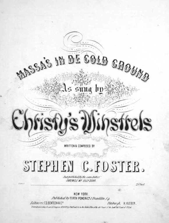 Sheet music cover dated 1852 "Massa's in de Cold Ground" is minstrel song by Stephen Foster (1826-1864). It was published by Firth, Pond & Co. of New York in 1852. The song is written in common time and in the key of D major with a tempo marked ’poco lento’. Ken Emerson, author of Doo-Dah!, writes that Foster followed up the success of "Old Folks at Home" with two more blackface songs: "Farewell My Lily Dear" published in December 1851 and "Massa" seven months later. "Massa" closely resembles "Old Folks" in its D major key, its 4/4 time, its six phrase structure, and its leap from D to high D in the opening measures. Emerson thinks the title may have been suggested by the Thomas Moore ballad "When Cold in the Ground", but the scenario, he points out, is the "flip-side" of "Uncle Ned" and "Oh! Boys, Carry Me 'Long". In "Massa", slaves are crying for a deceased slave owner - rather than the slave owner and his wife crying for a deceased slave. Emerson decides "Massa" has "a staying power that cannot be denied" (in spite of its racial naiveté and racial delusion), and attributes this power to Foster's "personal involvement" in the song. Massa is Foster's father William Barclay Foster who died not a wealthy but poor man. Emerson writes "[Stephen's] lyrics are both patricidal and anticipatory, a compound of guilt and grief." The song was the first of only four songs Foster published in 1852. Emerson speculates that the songwriter was simply played out, or he was living well enough on the royalties of his past successes to take some time off. Another "Cold" was added to the title following the American Civil War. (Ken Emerson. 1998. Doo-dah!: Stephen Foster and the rise of American popular culture. Da Capo Press. pp. 184-5)